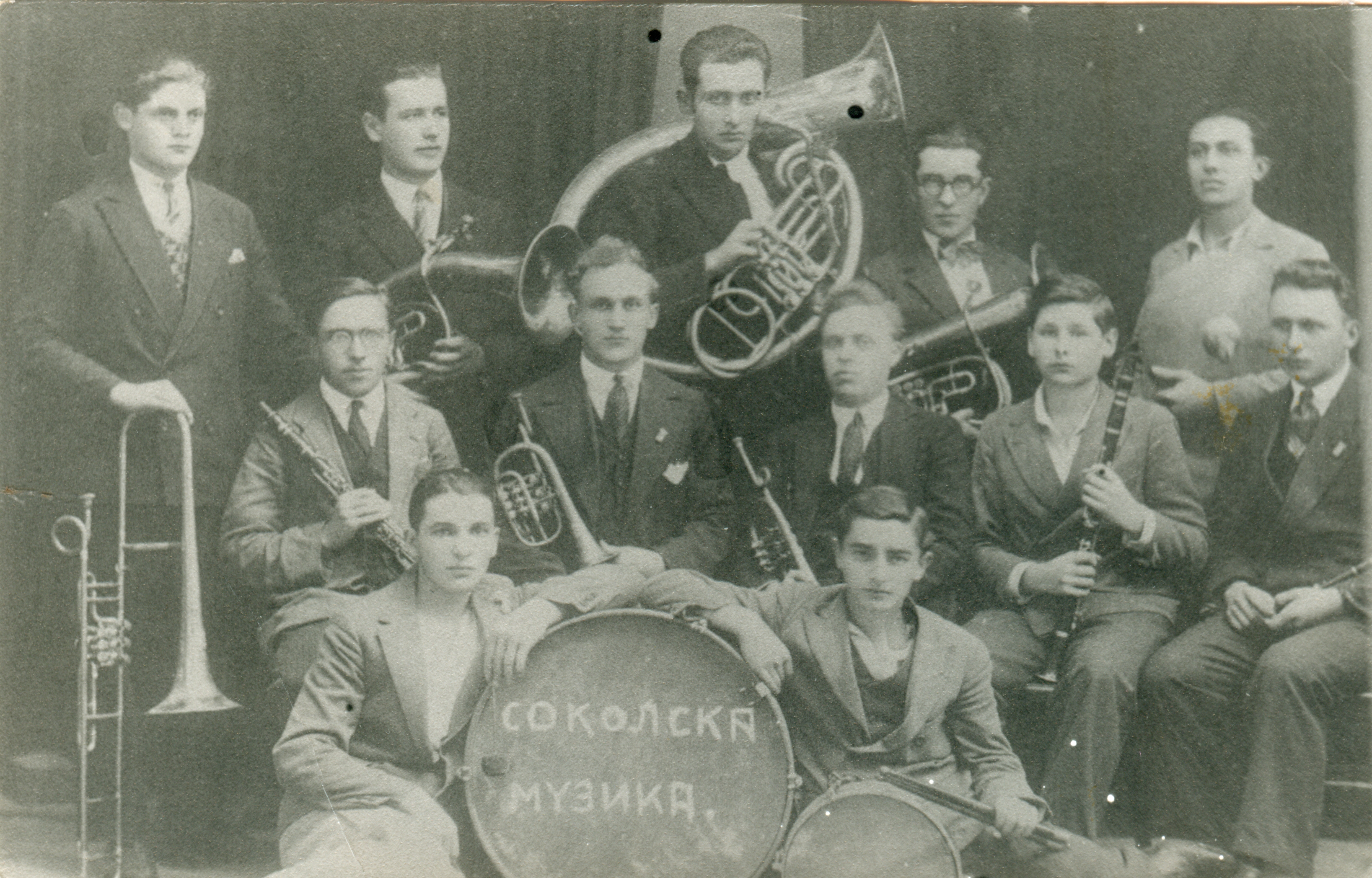 Negotin's Scouts Orchestra in 1931. Srpski (latinica): Orkestar Sokolske čete u Negotinu 1931. godine